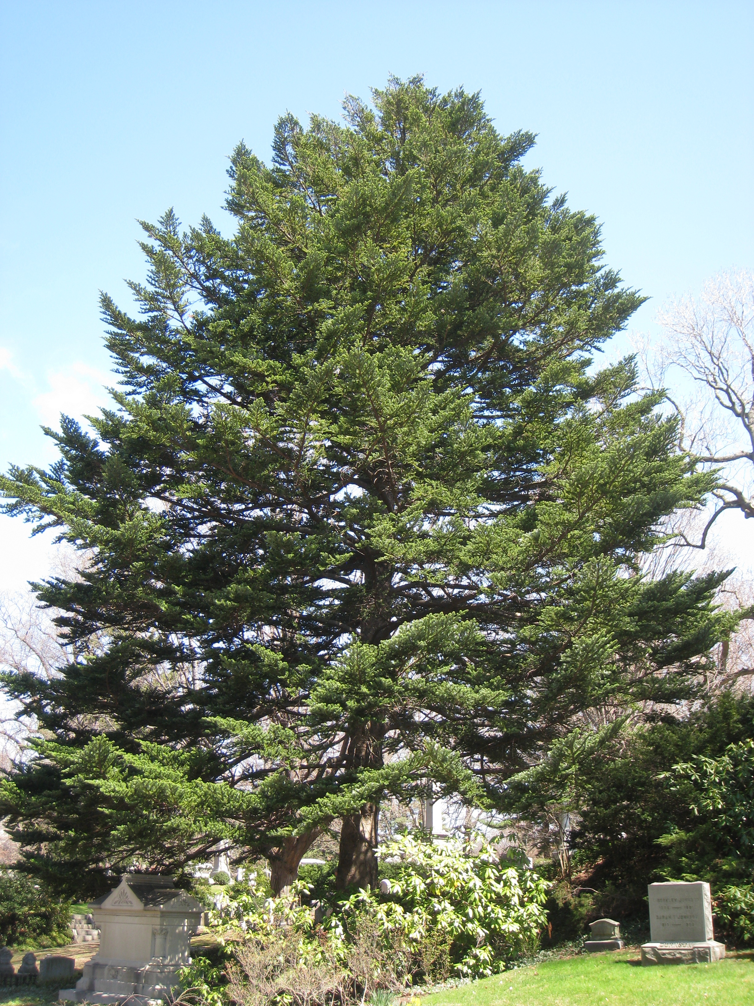 Abies homolepis, Mount Auburn Cemetery, Cambridge, Massachusetts, USA.